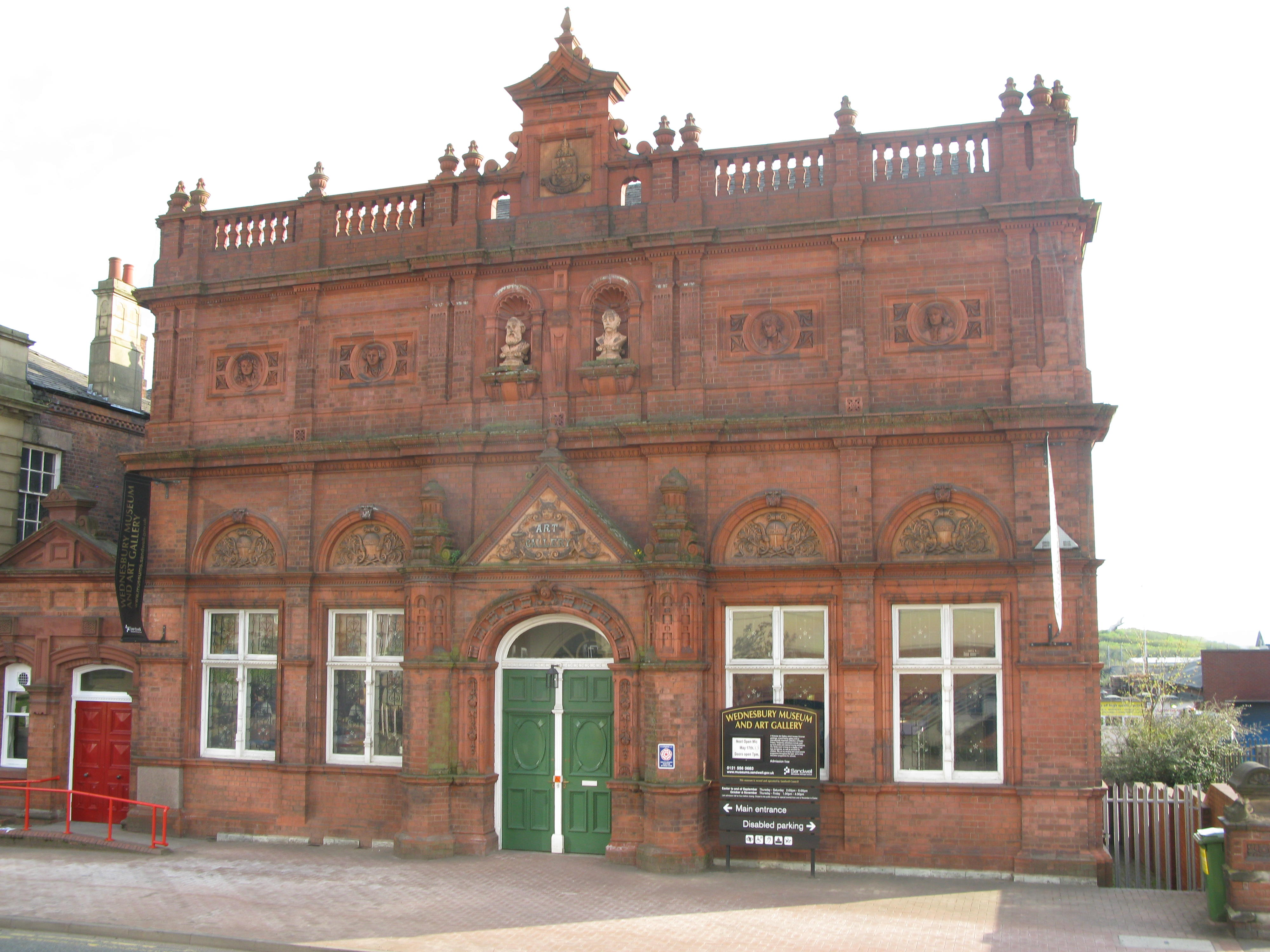 Grade II